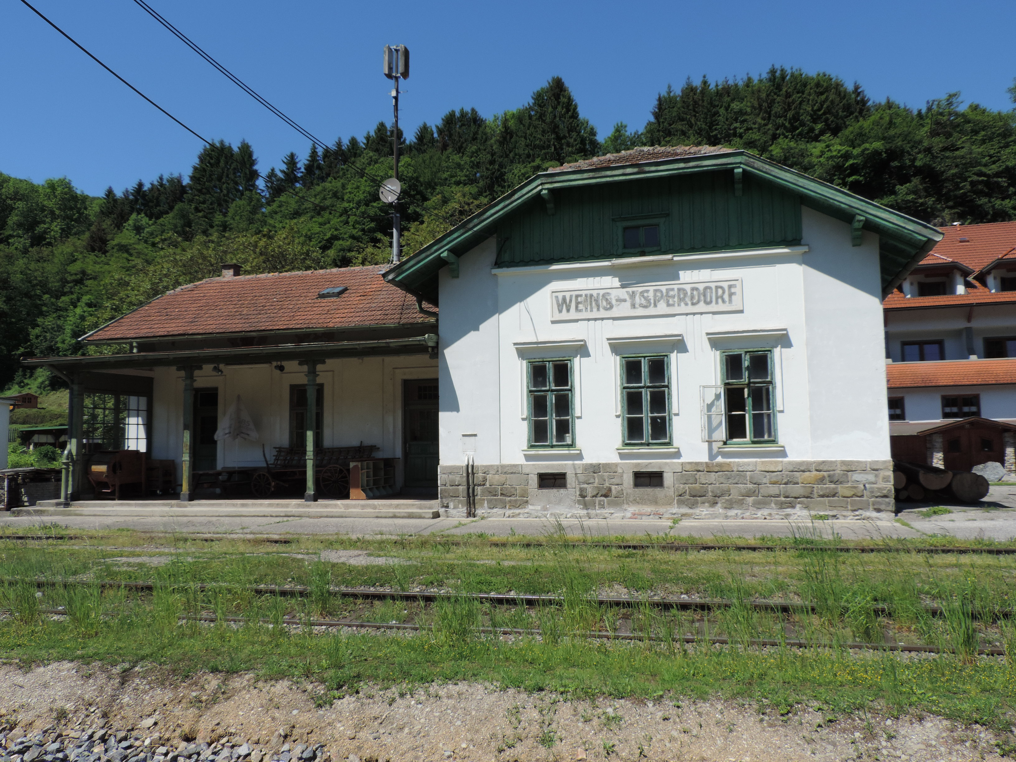 Weins-Isperdorf train station in Lower Austria